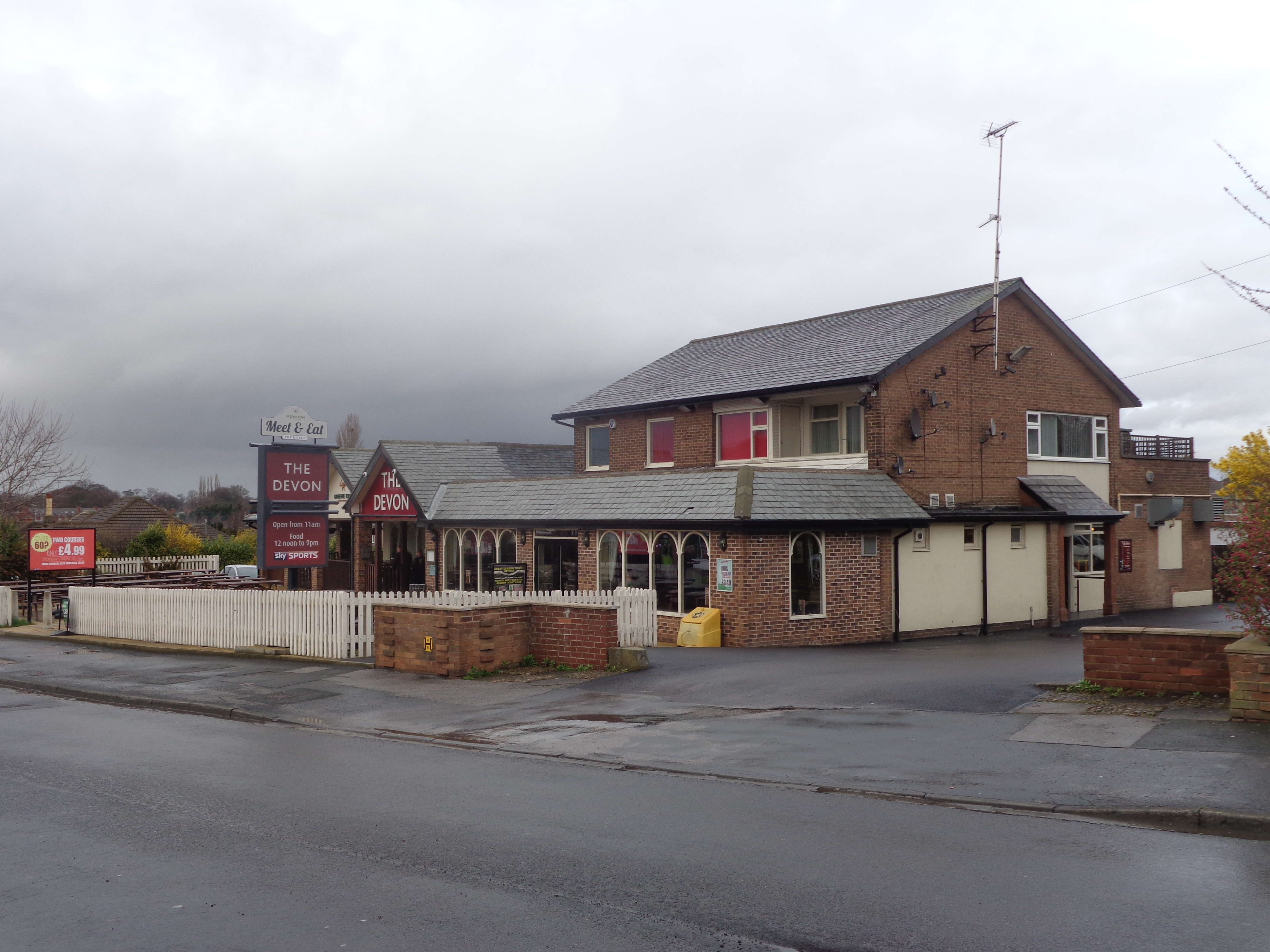 The Devon, Kingswear Parade, Austhorpe, Leeds, West Yorkshire. Taken on the afternoon of Saturday the 22nd of March 2014.